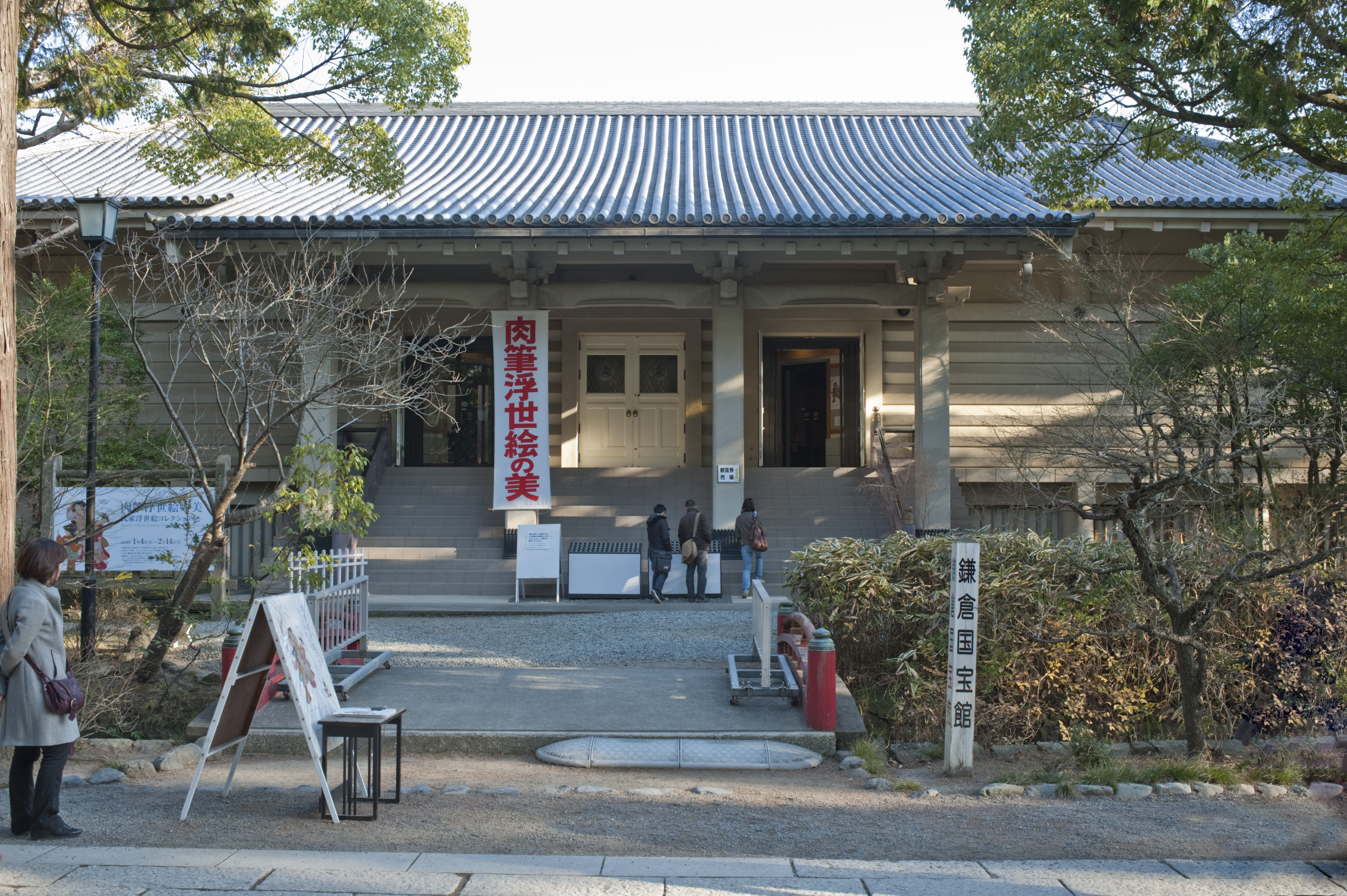 Kamakura Museum of National Treasures in Kamakura, Kanagawa